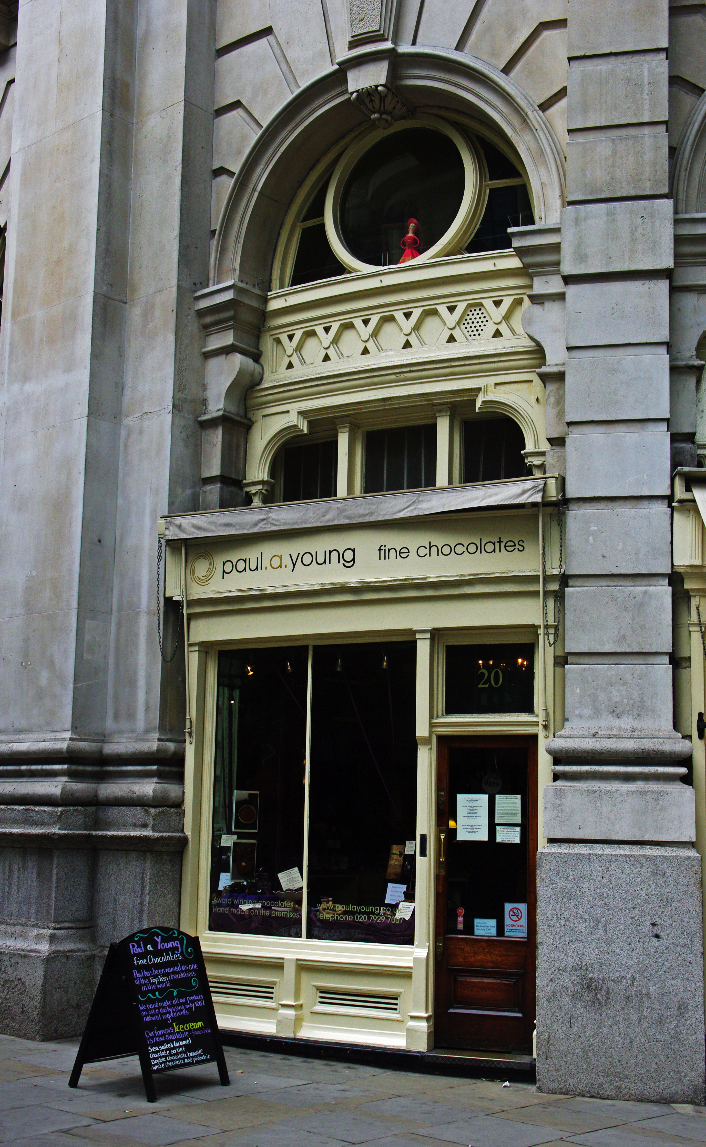 Paul A Young storefront, London, UK.